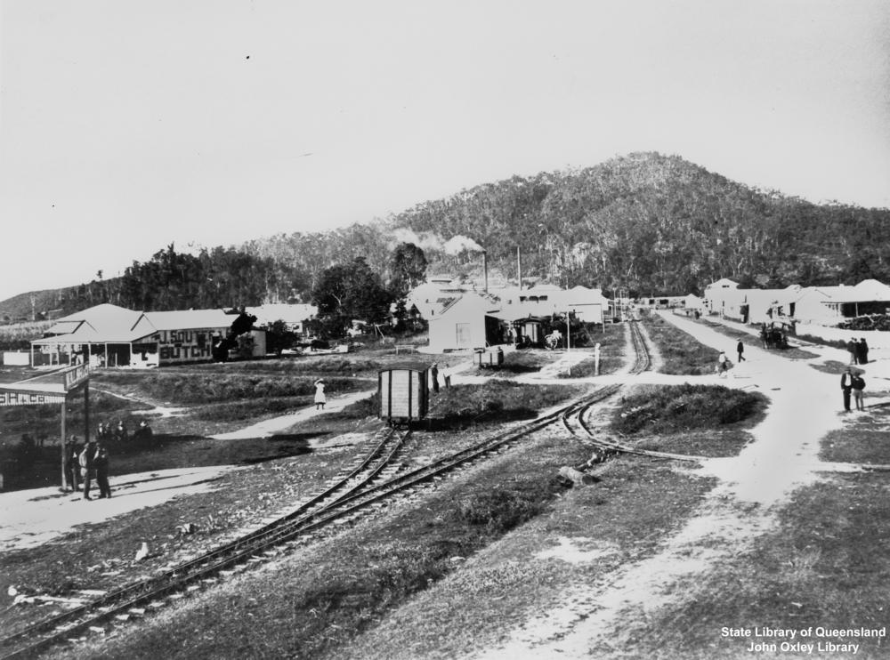 View of the town of Mossman, Queensland, ca. 1910 View of Mossman, around 1910, showing a number of shops at the left and right of the image, and train lines running through the centre of town.